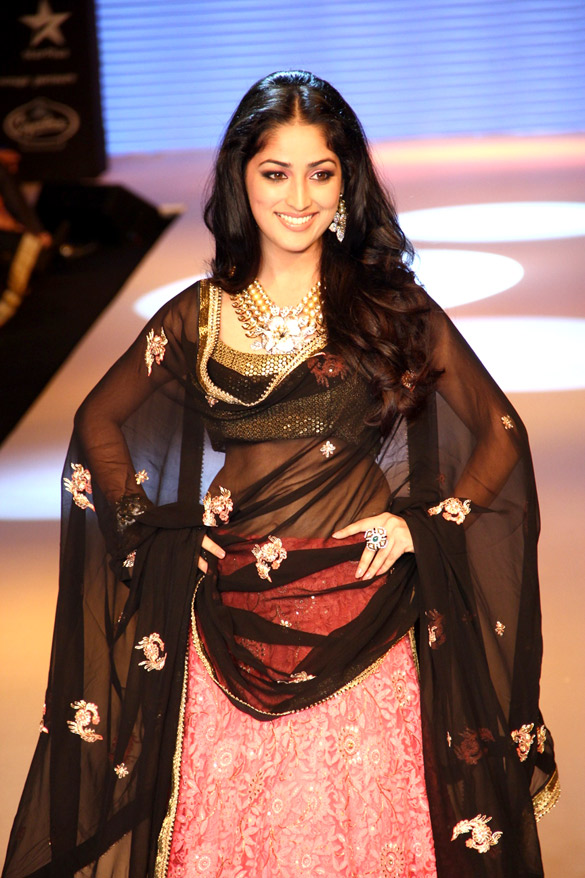 Yami Gautam walks the ramp for D. Navinchandra at IIJW 2012 Day - 3